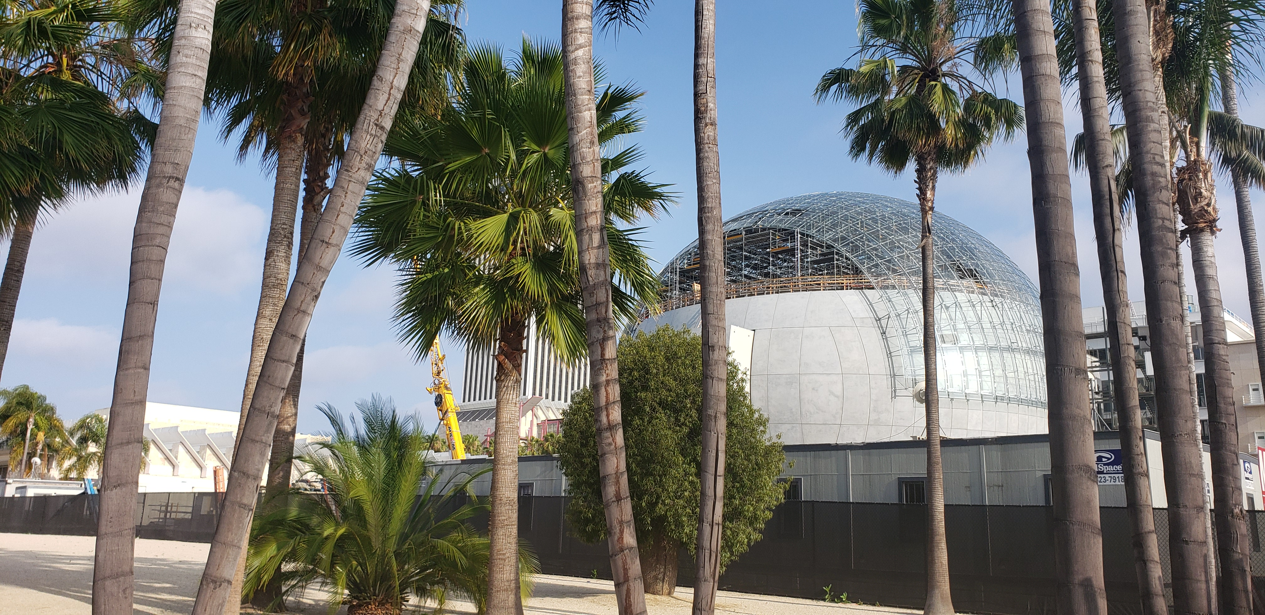 The Academy Museum of Motion Pictures in Los Angeles in 2019, with an unfinished roof.